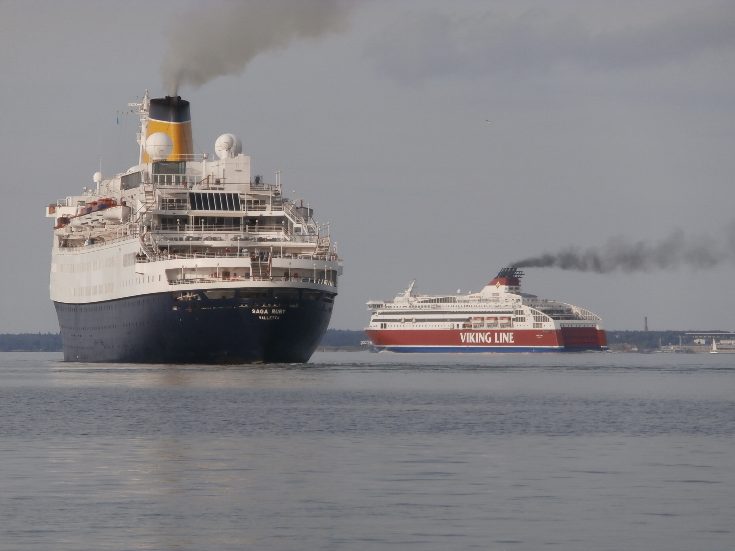 Saga Ruby and Viking XPRS leaving Tallinn 29 August 2013